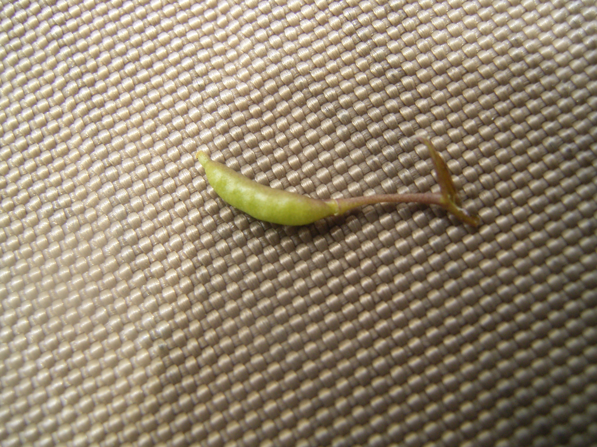 This photo shows a seedpod of rorippa palustris